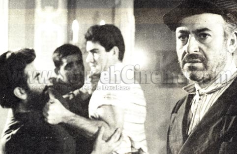 Aros darya - 1965